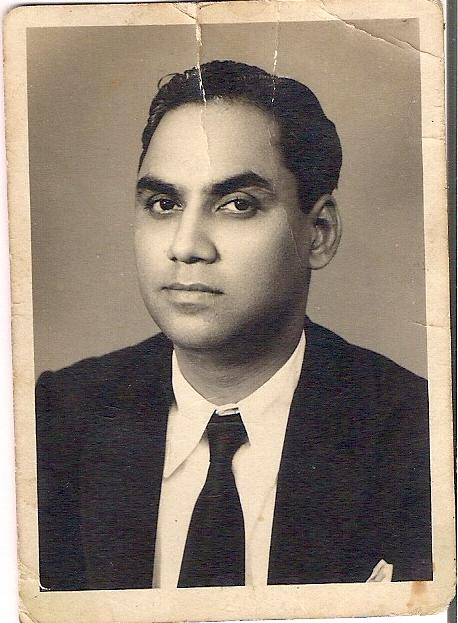 Justice Jagmohan Lal Sinha